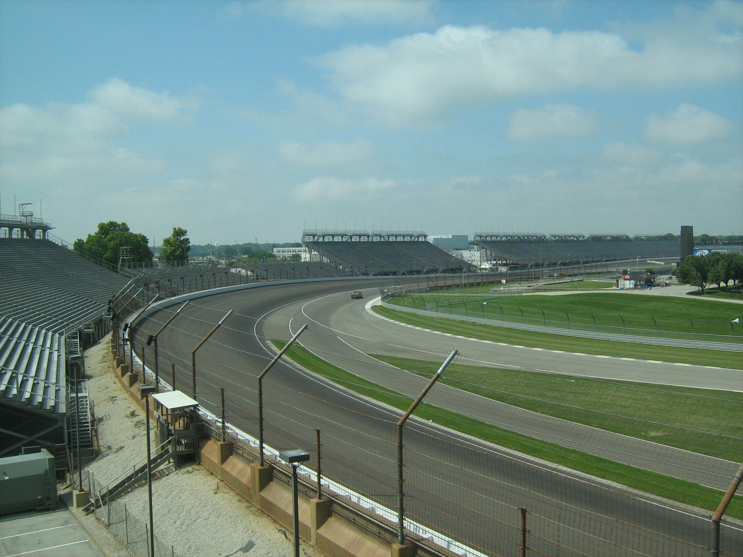 Indianapolis Motor Speedway - the track